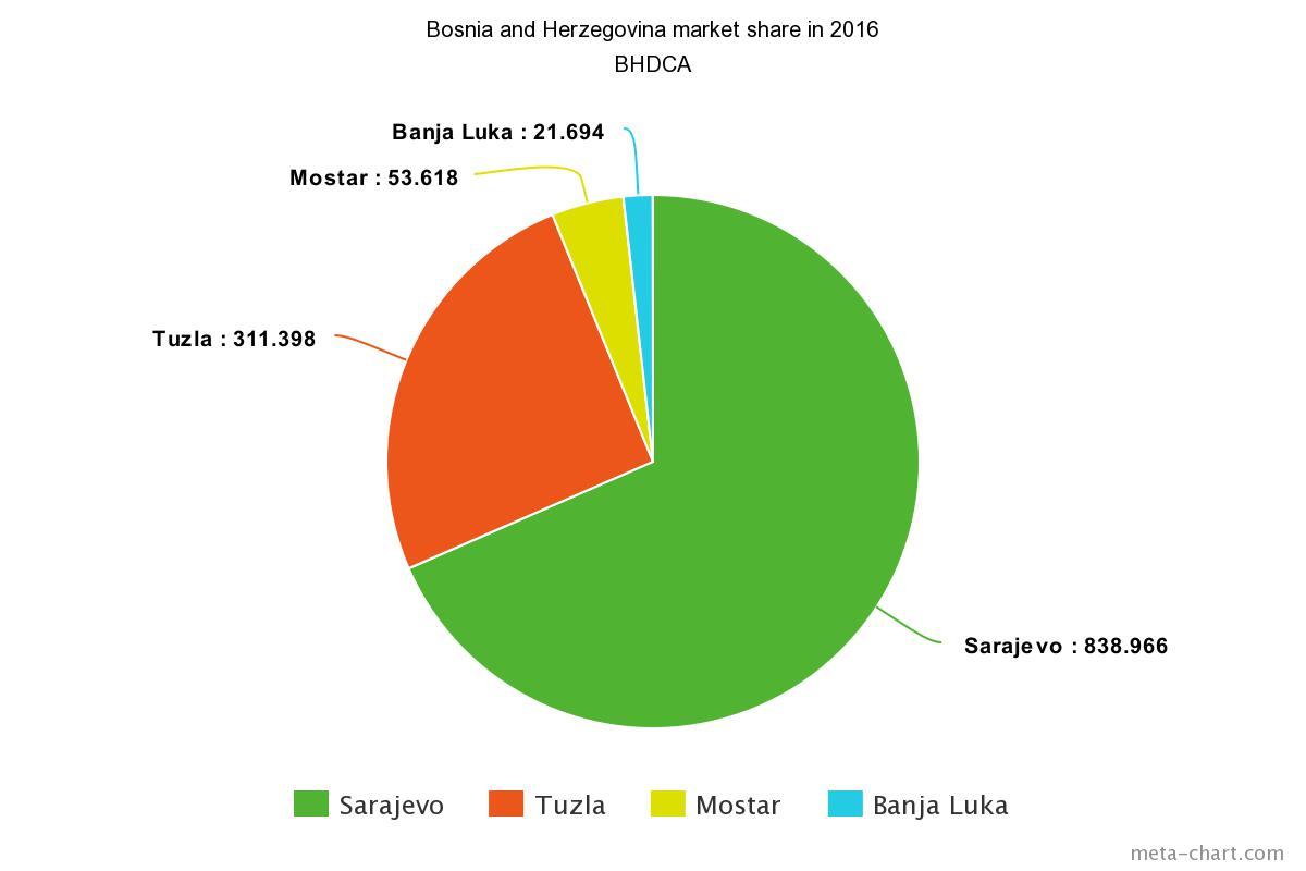 Bosnia and Herzegovina airports market share in 2016